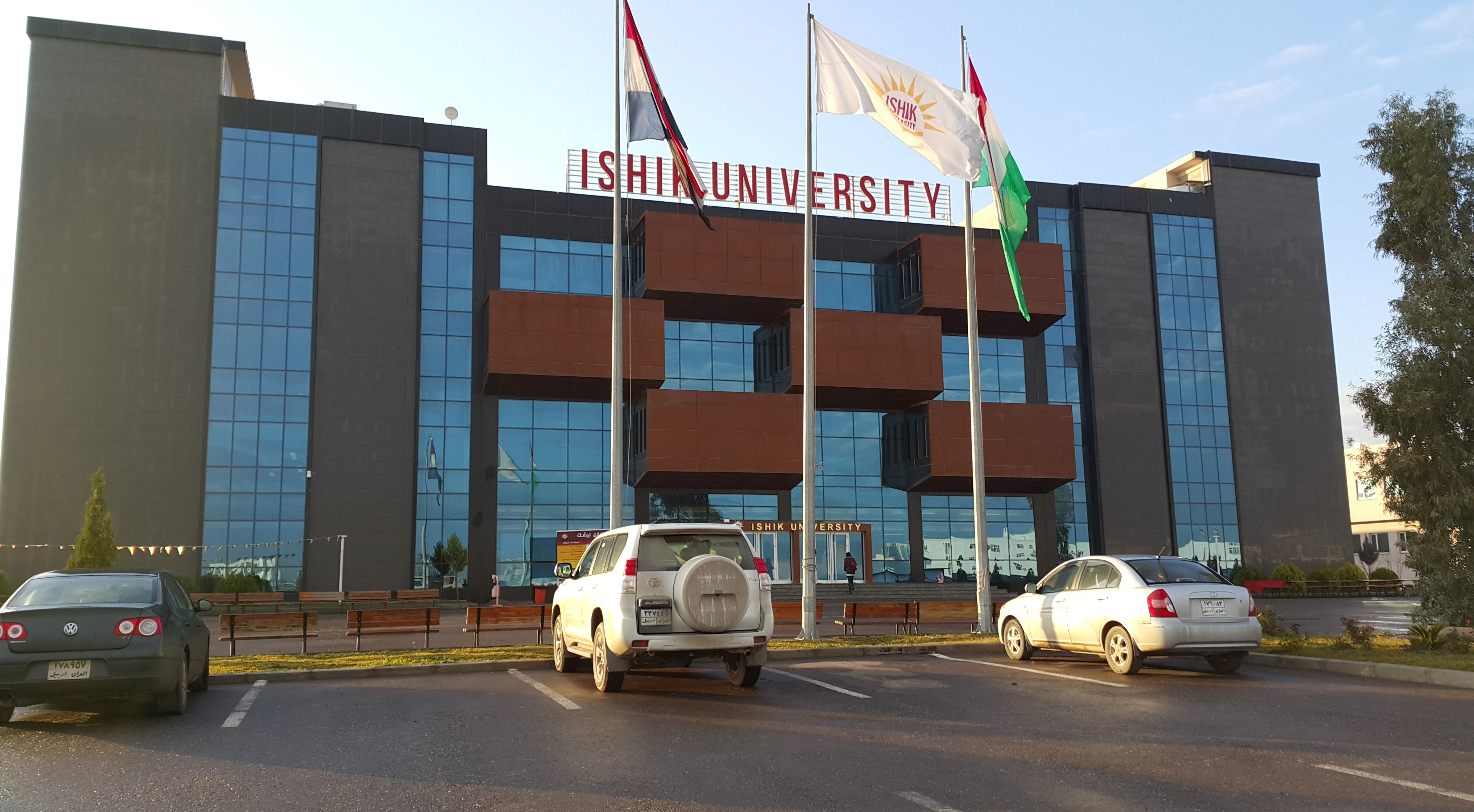 ishik university in erbil , iraqi kurdistan